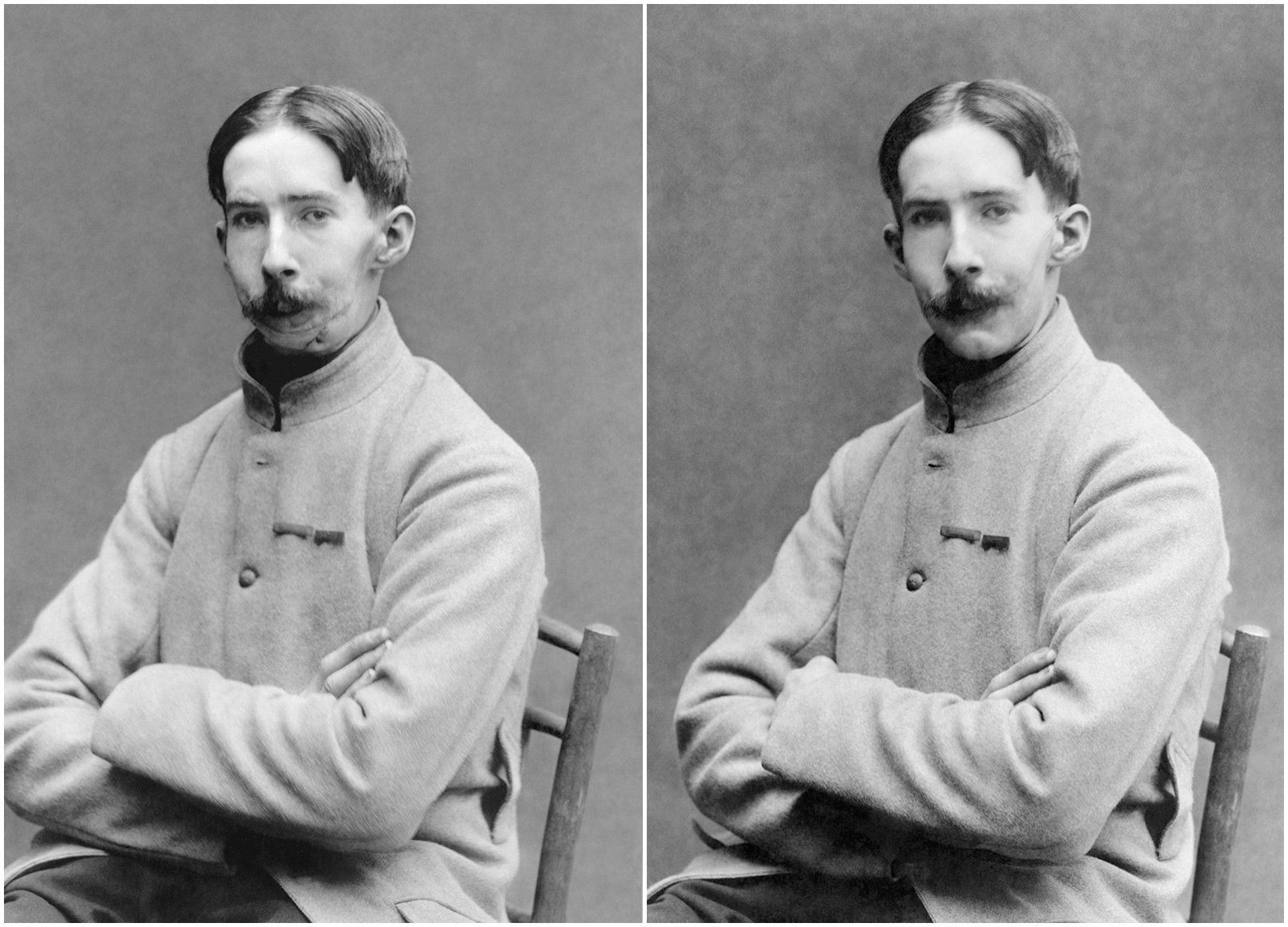 "French mutilé before being fitted with a mask by Mrs. Anna Coleman Ladd, of the Americian Red Cross, thus making him able to appear in public unnoticed"